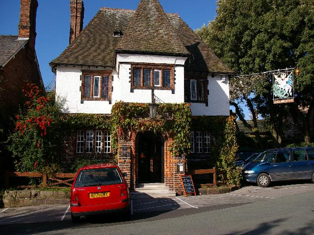 Photograph